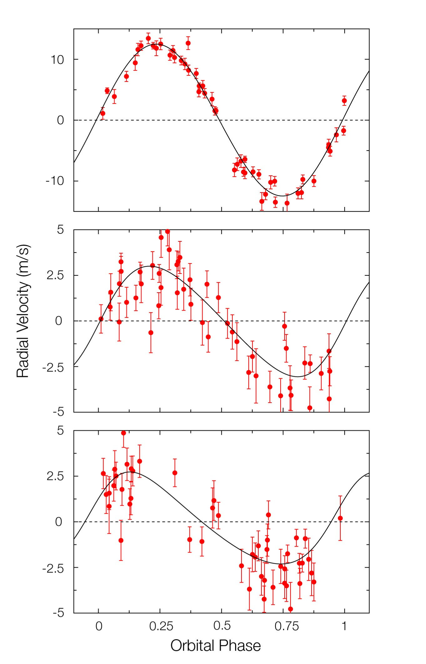 Three-planet Keplerian model of the Gliese 581 radial-velocity variations. The panels display the phase-folded curve of each of the planets, with points representing the observed radial velocities, after removing the effect of the other planets. Top panel refers to the 15 Earth-mass planet orbiting close to the star (5-d period), the middle one is the 5 Earth-mass planet in the habitable zone and the lower panel shows evidence for a third, 8 Earth-mass planet with a period of 84 days. The error on one measurement is of the order of 1 m/s.